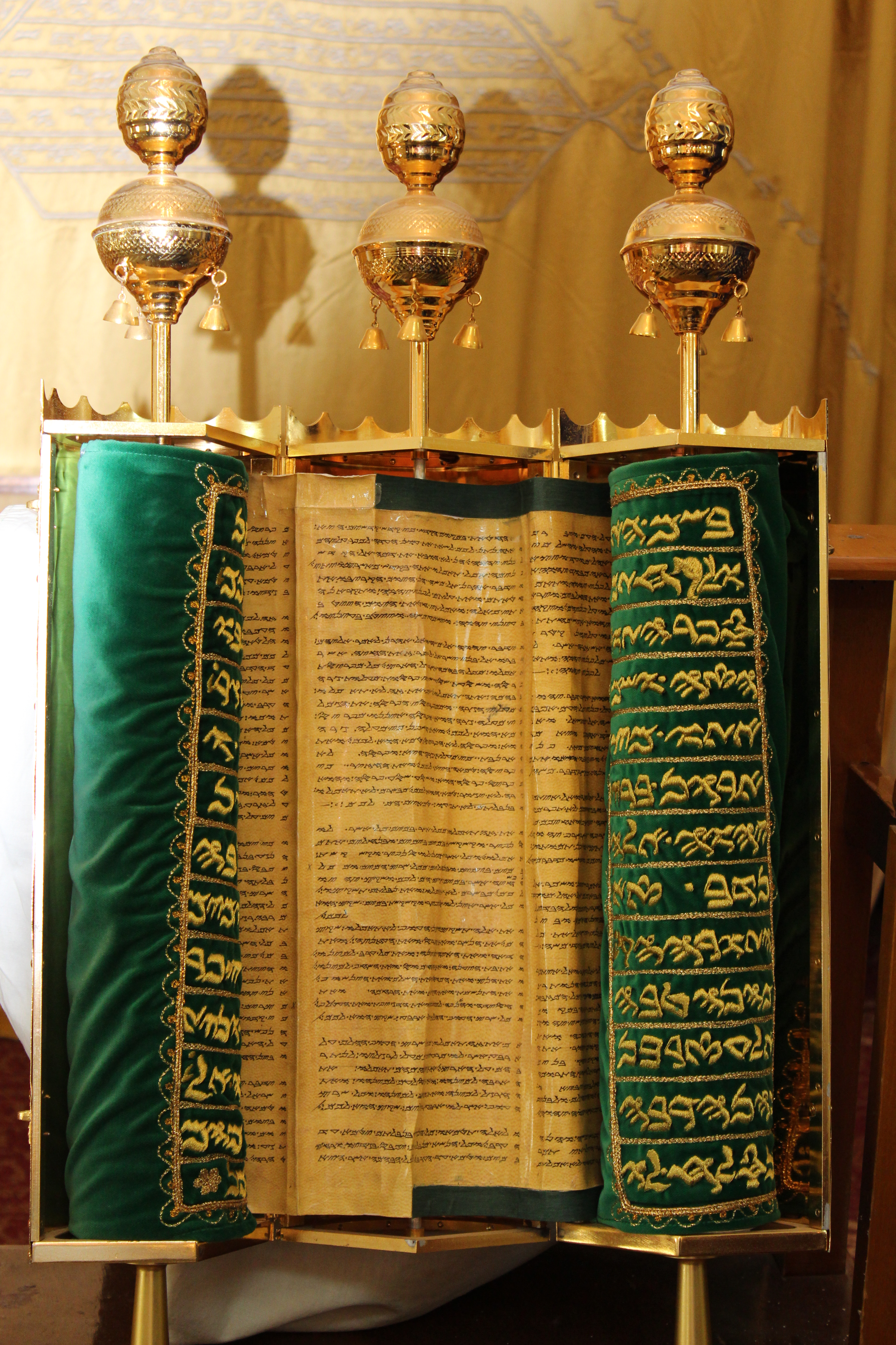 Samaritan Torah scrolls,Mount Gerizim Samaritan synagogue, Mount Gerizim This image was taken as part of the Elef Millim project trip to Mount Gerizim, near the town of Nablus (biblical Shechem) which was held on Friday, 26th April 2013. To view all images uploaded as part of the Elef Millim Project